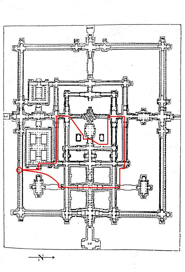 the "equipped path" usually used in visiting Beng Mealea temple